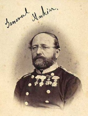 Stefan Ankjær (1820-1892), Danish General and politician, MP